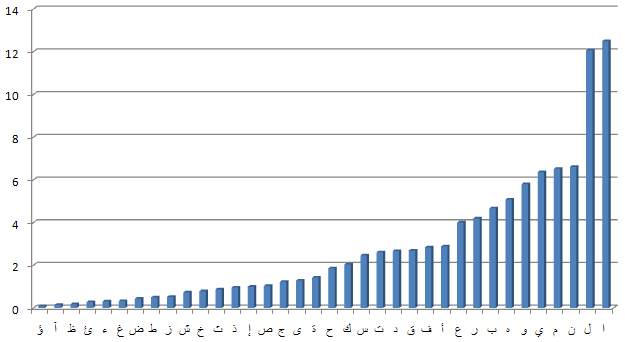 This image shows the frequency distribution of Arabic letters sorted according to frequency